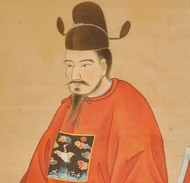 Portrait of Prince Tomigusuku by Toda Ujitsune (戸田氏庸) on 17 December 1832 (Japanese calender: 16 November, Tenpō 3) in Edo, Japan. In fact this man is the Futenma Pekumi Chōten (普天間 親雲上 朝典), a political decoy of Prince Tomigusuku. Prince Tomigusuku died on 23 September 1832 (Chinese calender: 29 August, Daoguang 12) in Kagoshima.